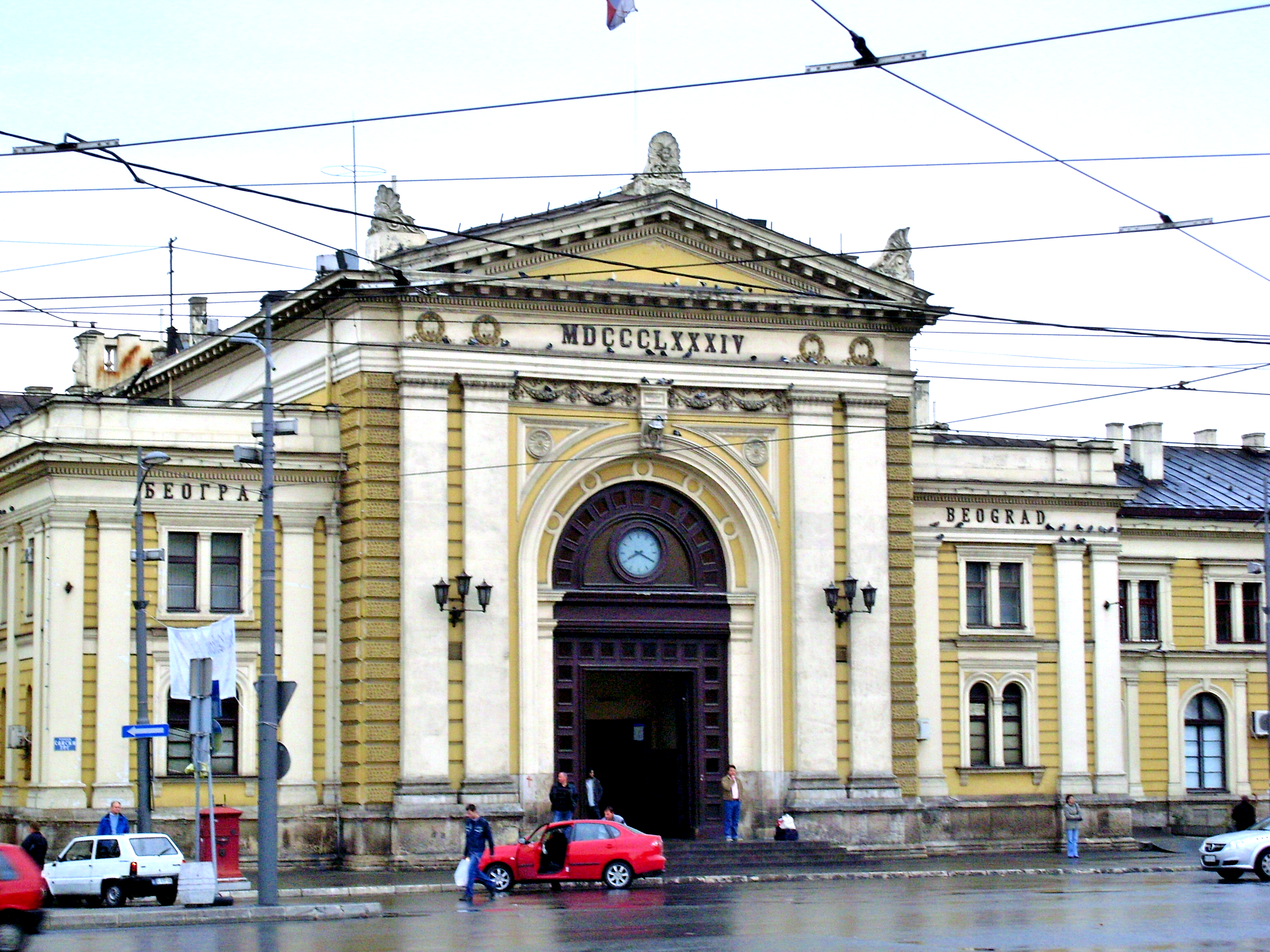 Main railway station in Belgrade